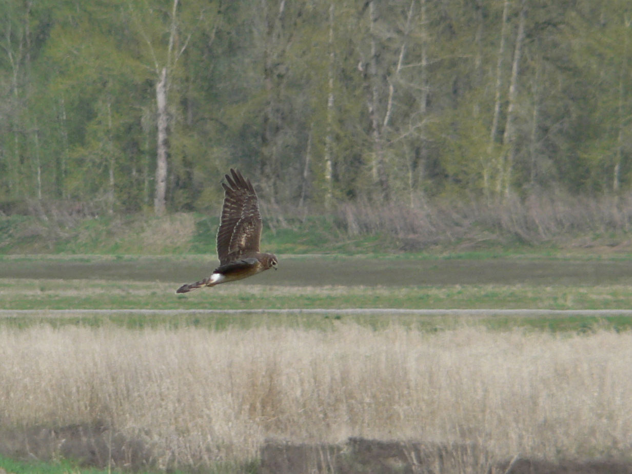 Northern Harrier adult female